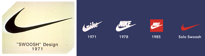 The original Nike Swoosh design and its' changes over the years.